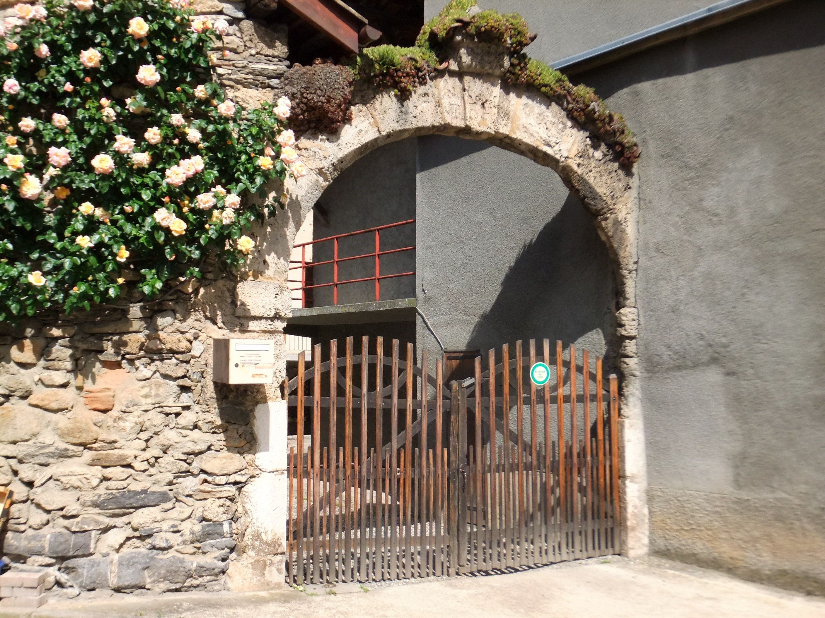 Archway named "pope's door" in memory of Pascal II (1050-1118), remaining from a Benedictine priory.